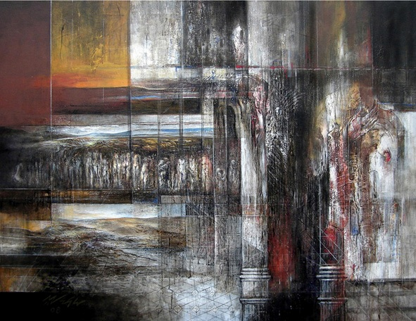 1 Painting Retablo de los mártires (Altar of the martyrs) by Mauricio García Vega